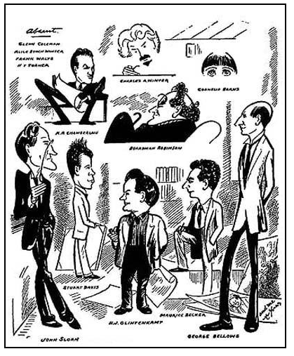 'The Cartoonists', by Art Young, 1917, published in The Masses [when ?] shows from the top : Charles Allen Winter, Cornelia Barns, K. R. Chamberlain, Boardman Robinson, and from the left to the right, John French Sloan, Stuart Davis, Henry J. Glindenkamp, Maurice Becker, George Bellows. Absent : Glenn O. Coleman, Alice B. Winter, Frank Walts, H. J. Turner.